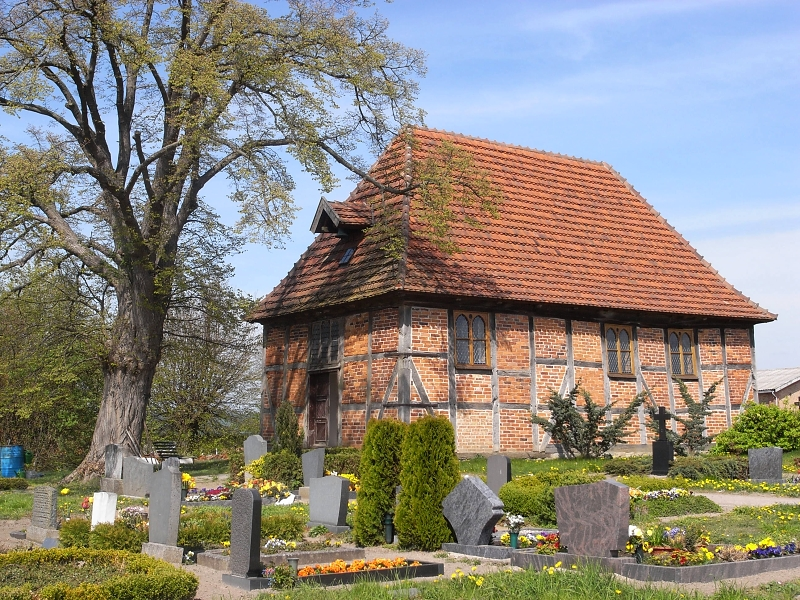 Church in Zepelin, district Güstrow, Mecklenburg-Vorpommern, Germany